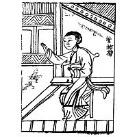 Zigu - Chinese goddess of latrines